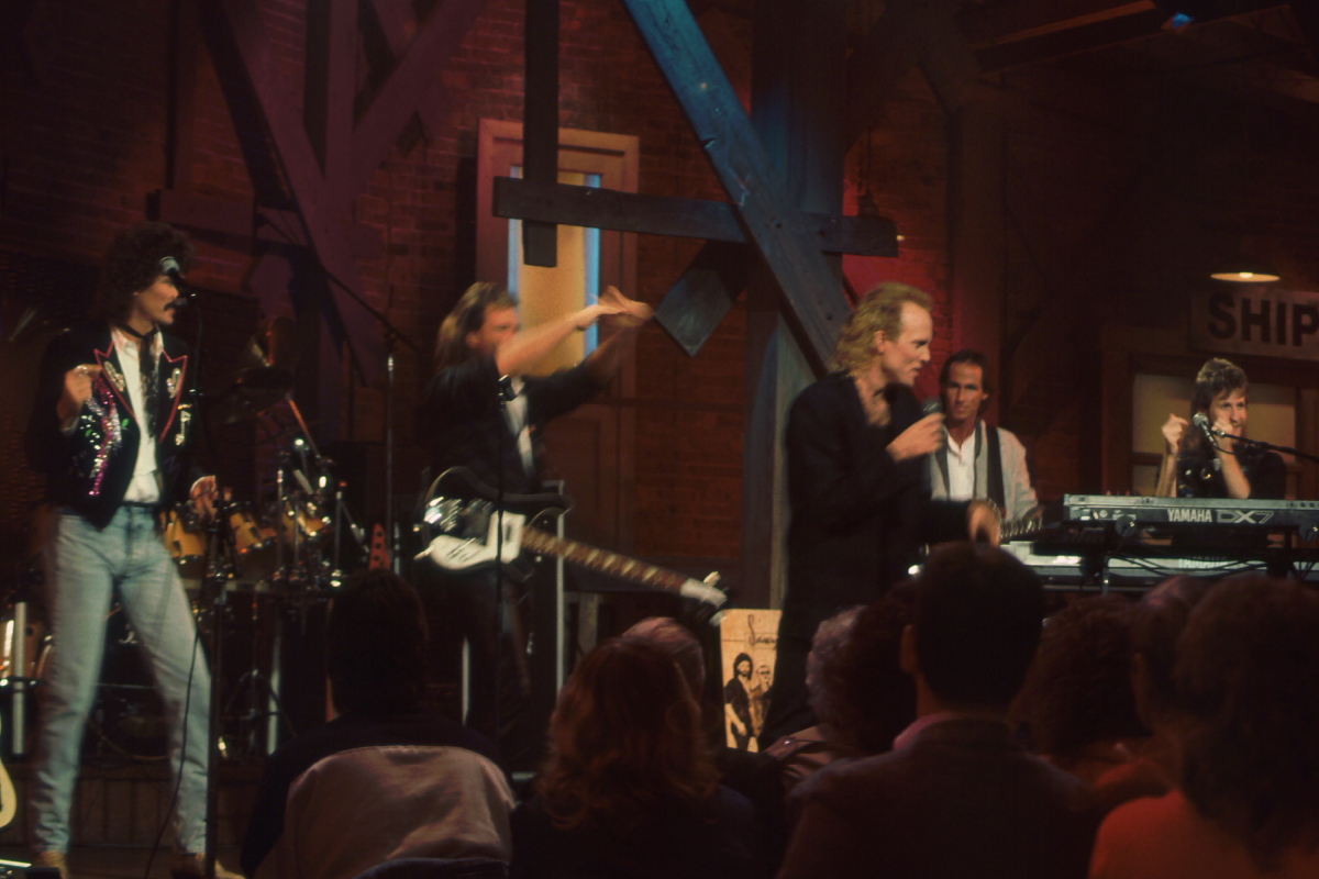 Sawyer Brown, The Cannery, 1987.